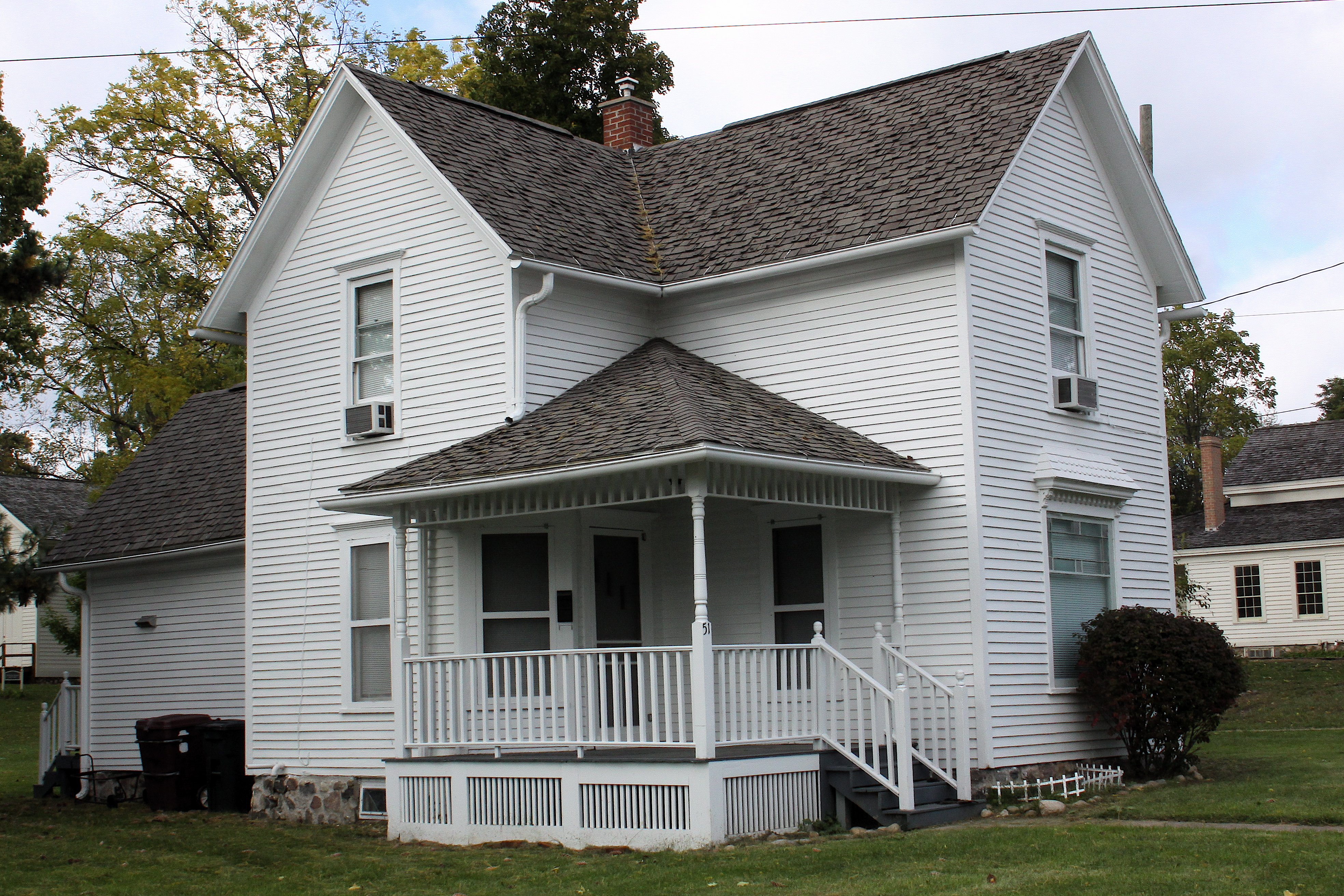 Original home of the Adventist founders.